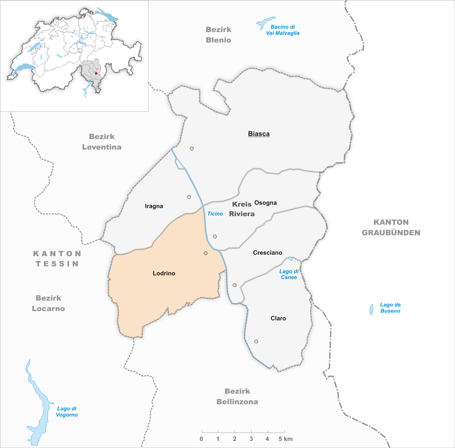 Municipality Lodrino